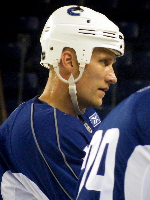 Vancouver Canucks defenceman Sami Salo during a team practice.